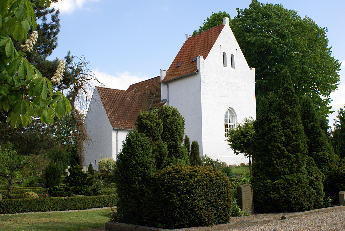 Gevninge Church, Gevninge (Lejre Kommune), Denmark